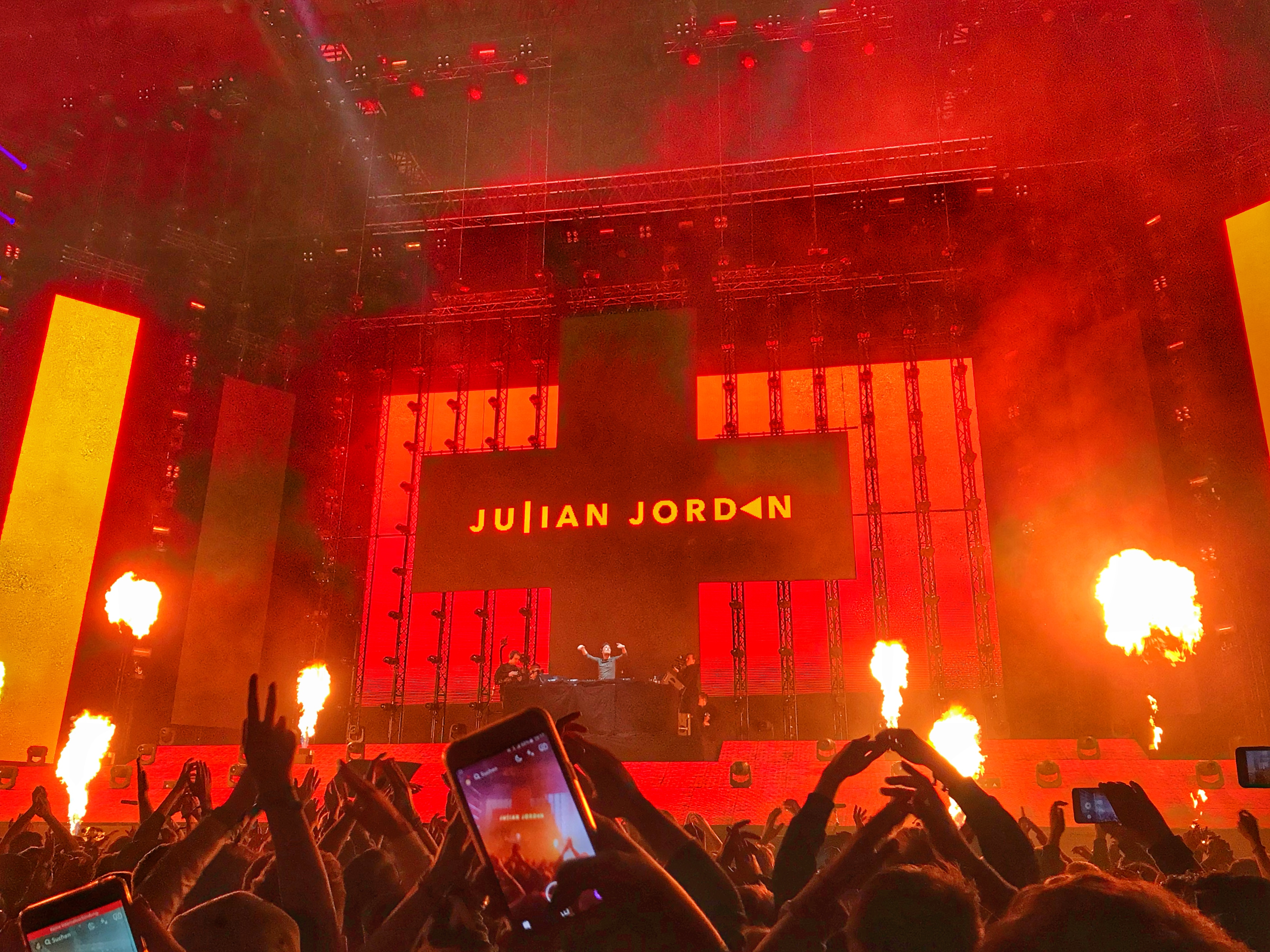 Julian Jordan playing live as a support act for Martin Garrix appearance at BigCityBeats World Club Dome Winter Edition 2017.